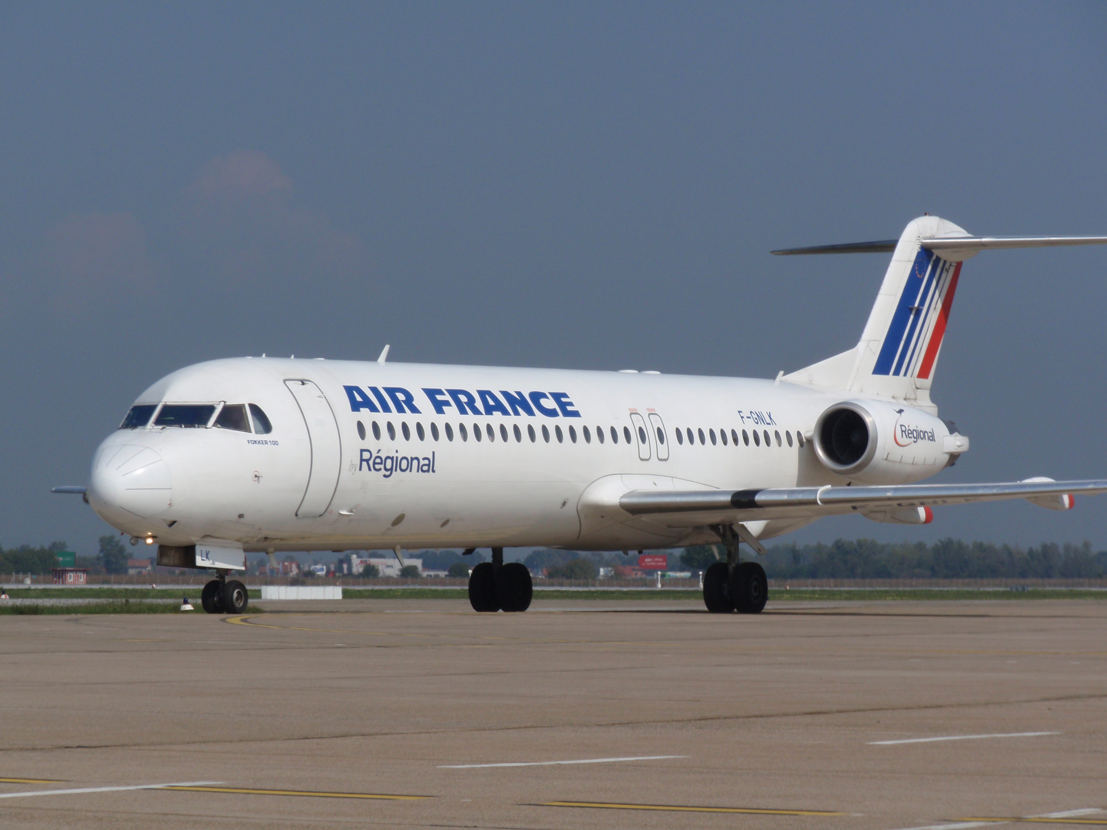 AF Régional Fokker F100 (F-GNLK)